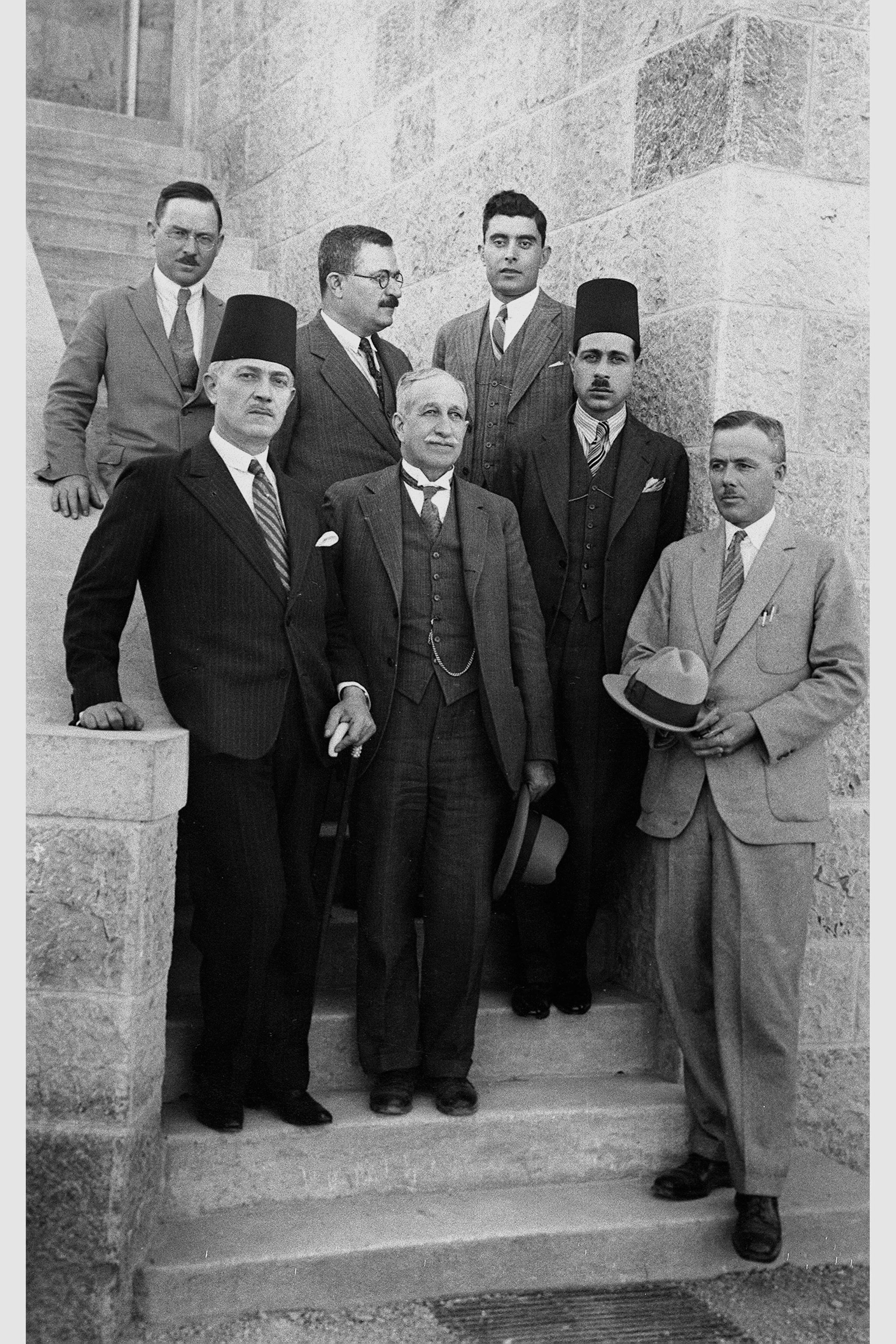 VISIT OF JERUSALEM'S MAYOR RAGEB NASHASHIBI AT THEY.M.C.A.'S CONSTRUCTION SITE. L-R DOWN, RAGEB NASHASHIBI, MR SALAMEH, FAHRI NASHASHIBI & MR ADAMSON. MORE DETAILS-HEBREW ביקור כבוד ראש עירית ירושלים ראג'ב נאשאשיבי, באתר הבנייה של בניין ימק"א. משמאל לימין למטה- ראש עיריית ירושלים ראג'ב נאשאשיבי, מר סלמה, פאחרי נאשאשיבי ומר אדמסון. שורה עליונה משמאל לימין- מר גלונקלר, ד"ר כנעאן ומר לטוף.